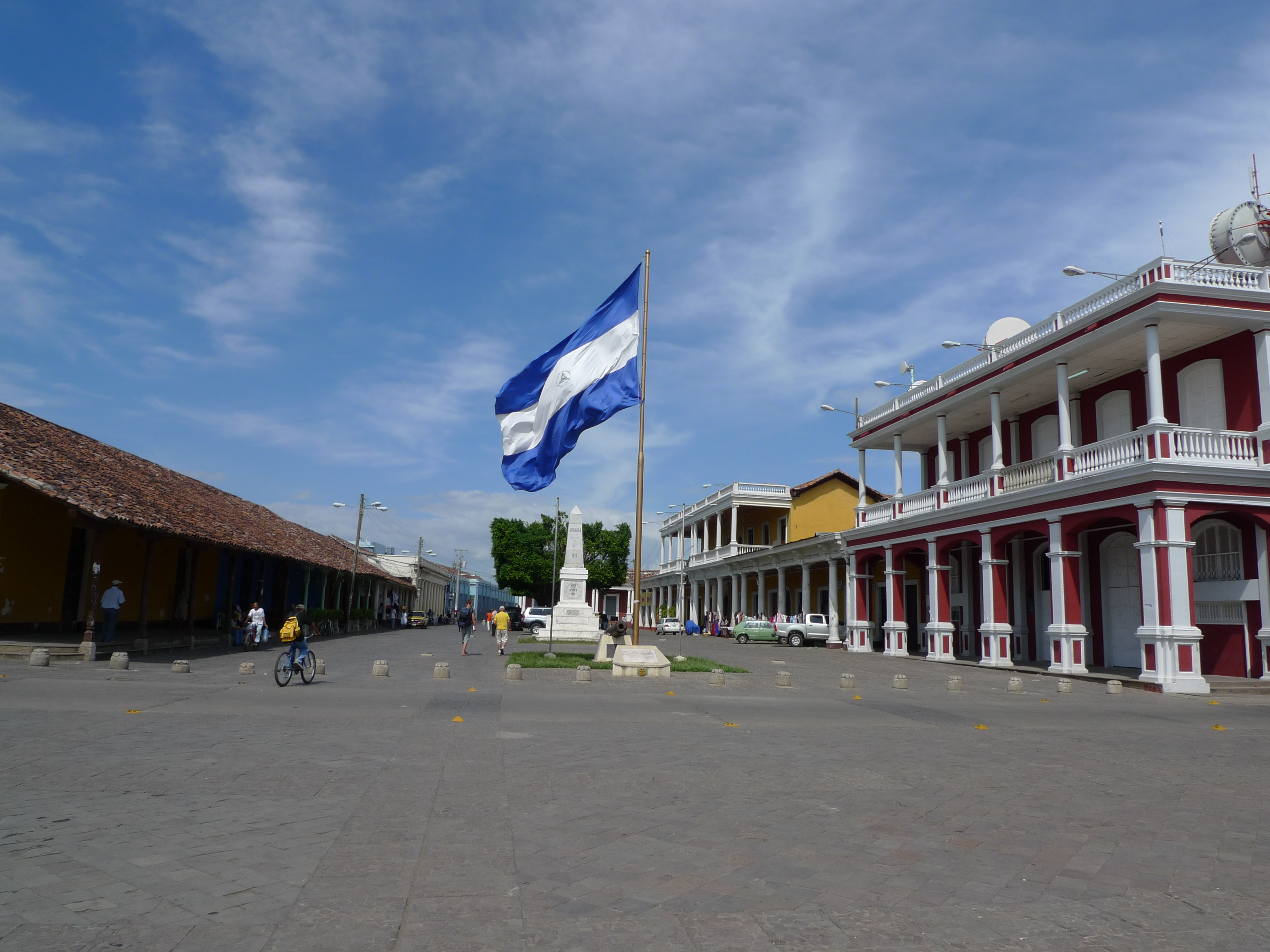 Independence square - Granada, Nicaragua